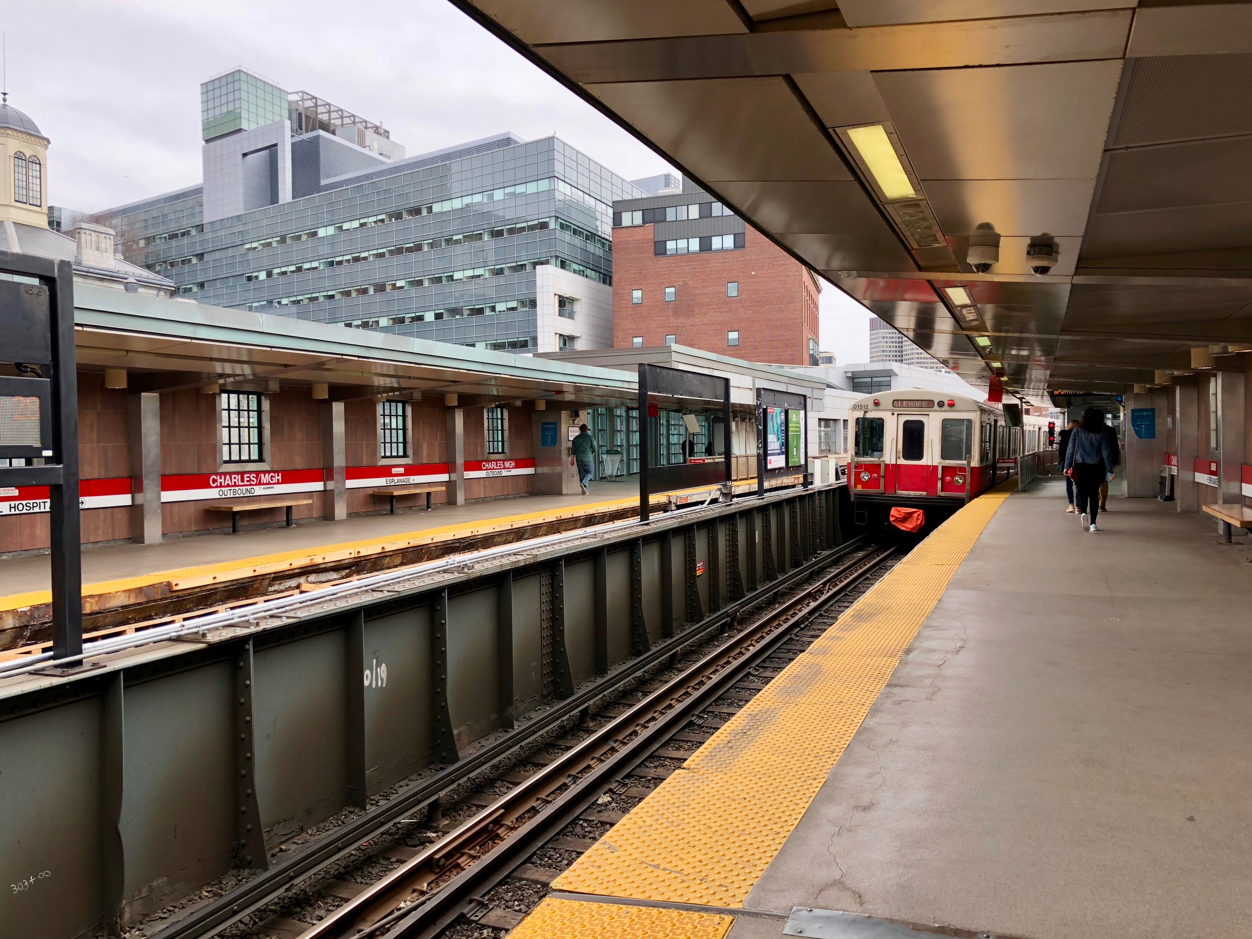 An inbound train leaves Charles/MGH station in April 2018